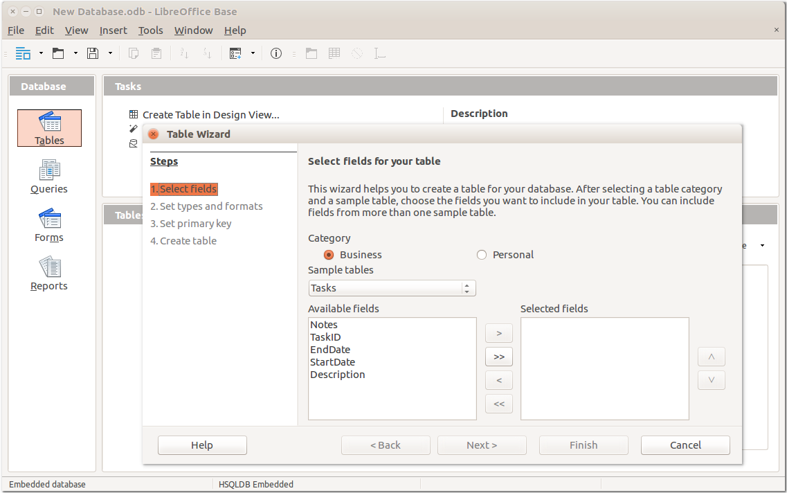 LibreOffice 5.2 Base